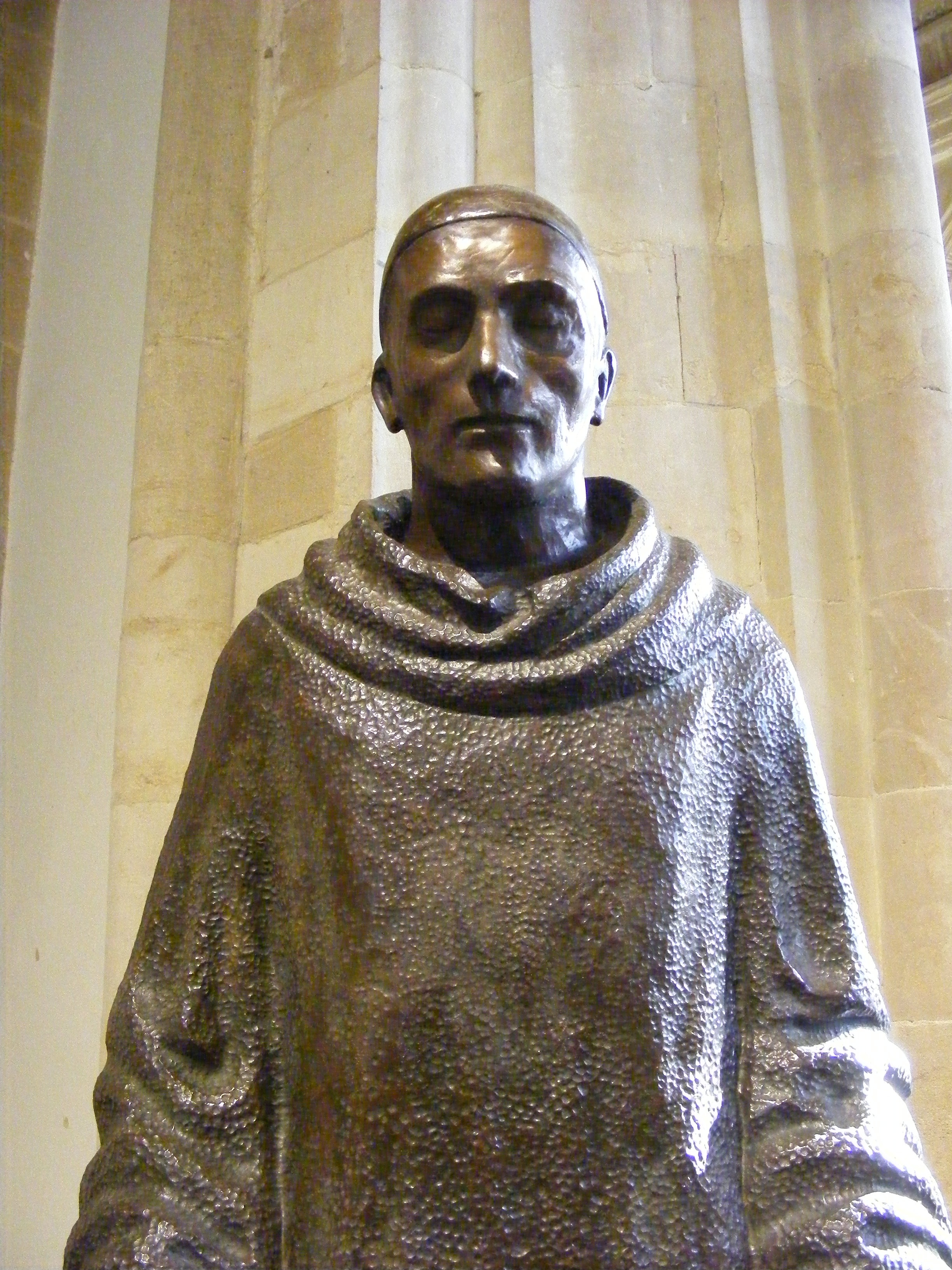 Statue of St Aldhelm in Sherborne Abbey by Marzia Colonna, erected in 2004